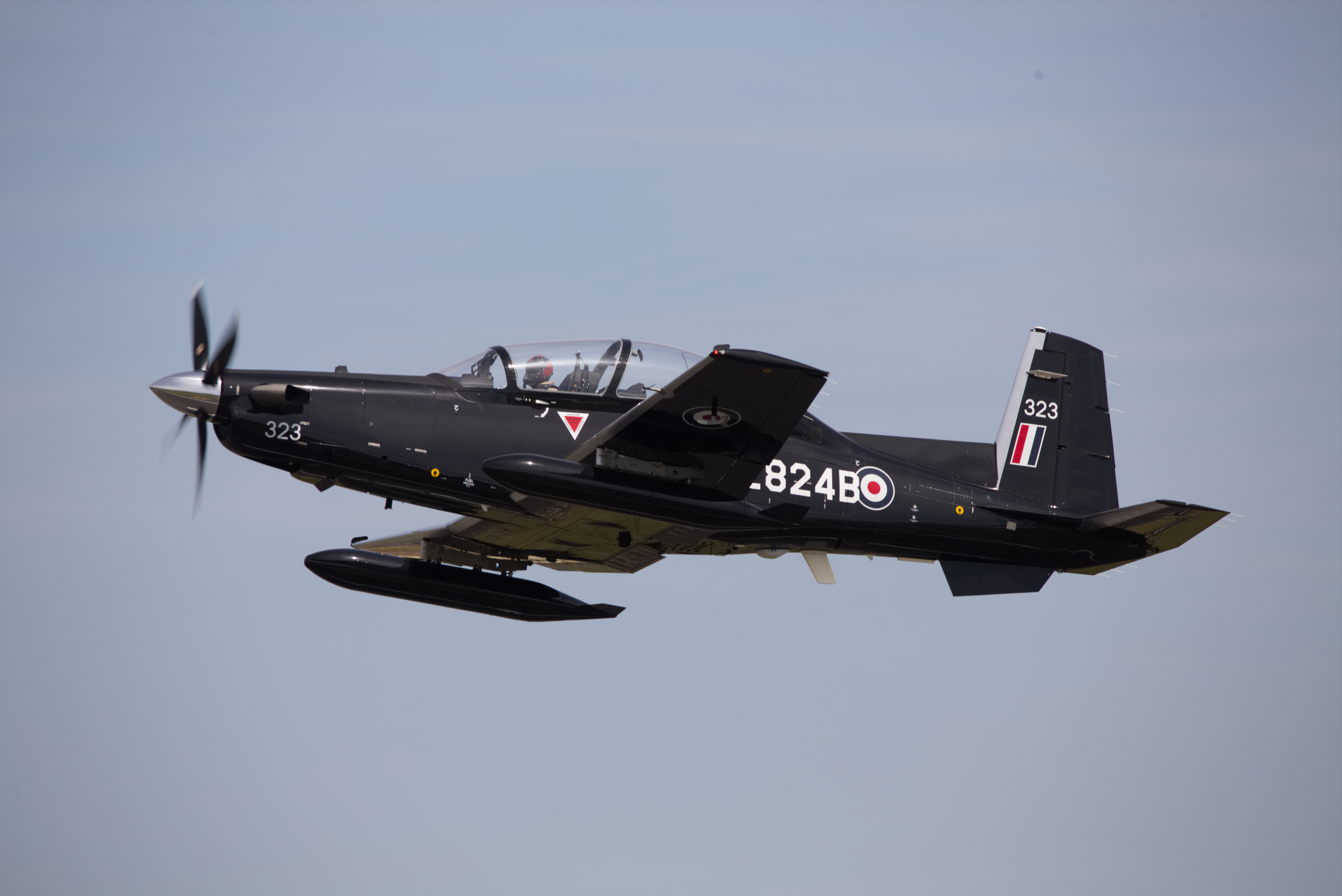 Hawker Beechcraft T-6C Texan II N2824B